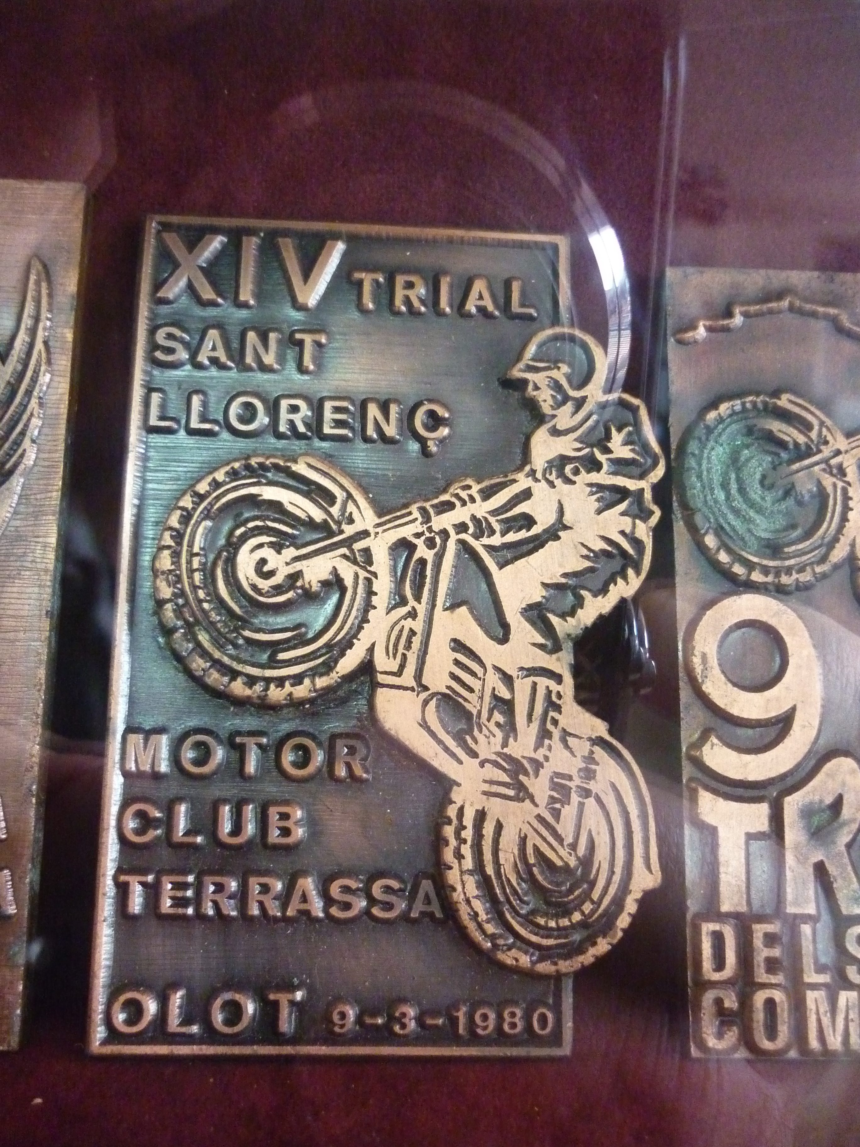 Trial de Sant Llorenç 1980 trophy. Trial World Championship in Olot, Catalonia, held March 9th, 1980.Isern Motorcycle Museum, Mollet del Vallès (Catalonia).